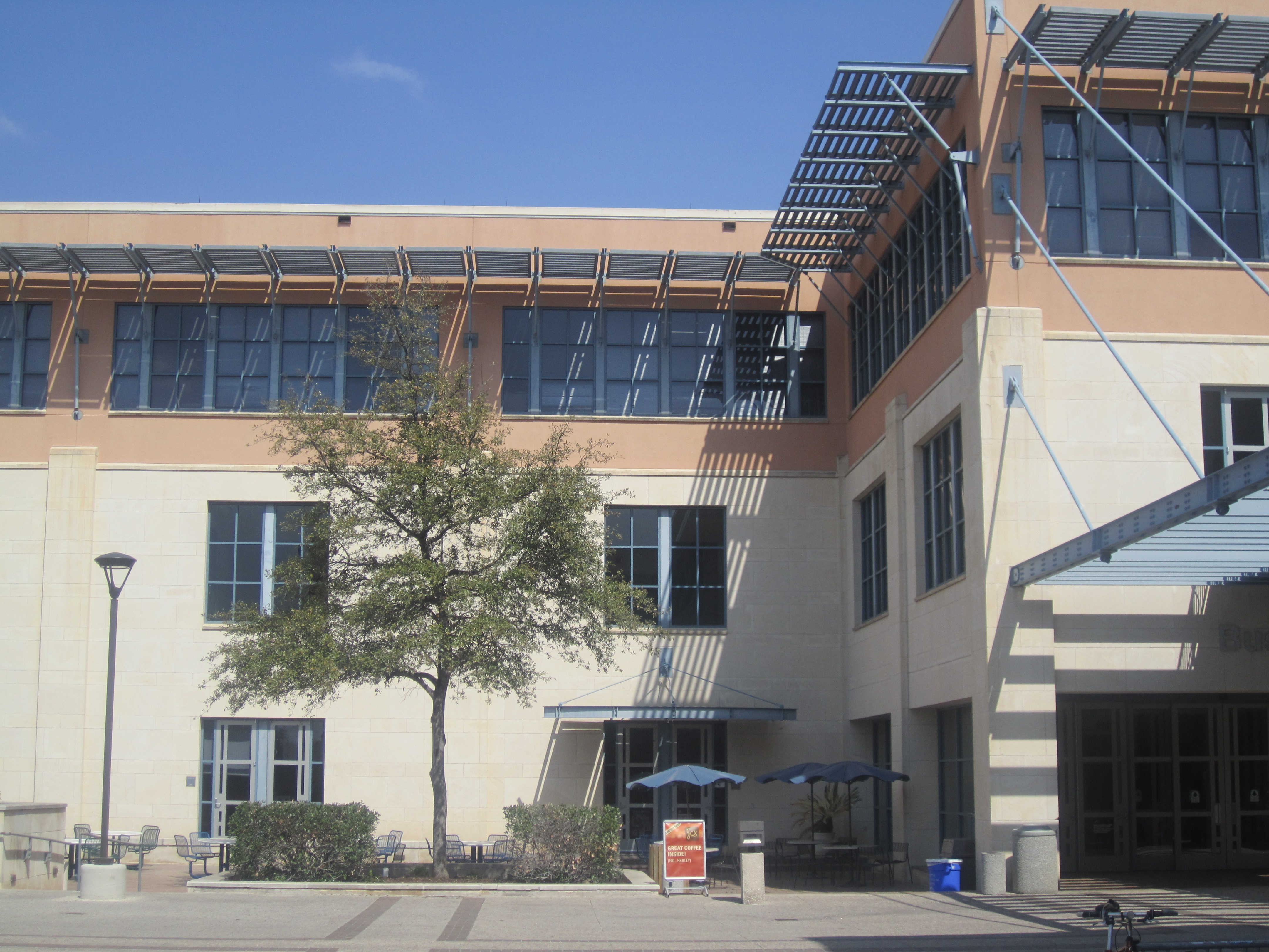 I took photo with Canon camera at UTSA in San Antonio, TX.